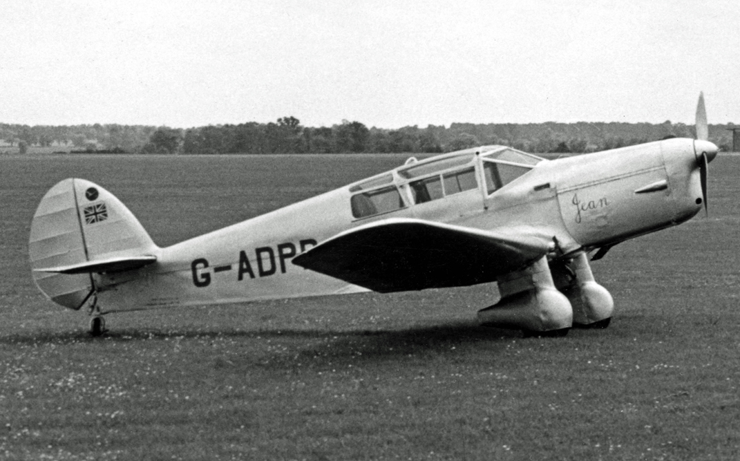 Jean Batten's record-breaking Percival P.3 Gull Six G-ADPR 'Jean' at the 1954 Coventry air show